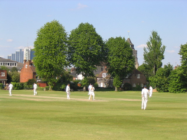 May's Bounty, Basingstoke. May's Bounty Cricket Ground named after Colonel May, who donated the land as a generous gift (or bounty) to the Cricket Club. Just behind the trees to the right there is a pub called "The Bounty" and the street running parallel between the trees and terrace of houses is called "Bounty Road". The background reveals some of the old and new of the town. The steeple belongs to "All Saints Church" and the high rise office block is situated in the town centre by the bus station.